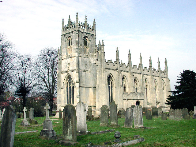 St Augustine's Parish Church, Skirlaugh, East Riding of Yorkshire, England.